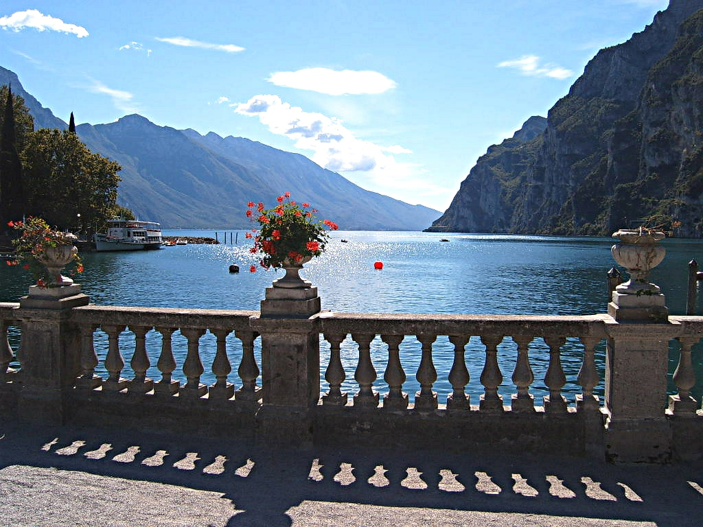 Lakeside promenade in Riva del Garda, Lago di Garda (Italy)